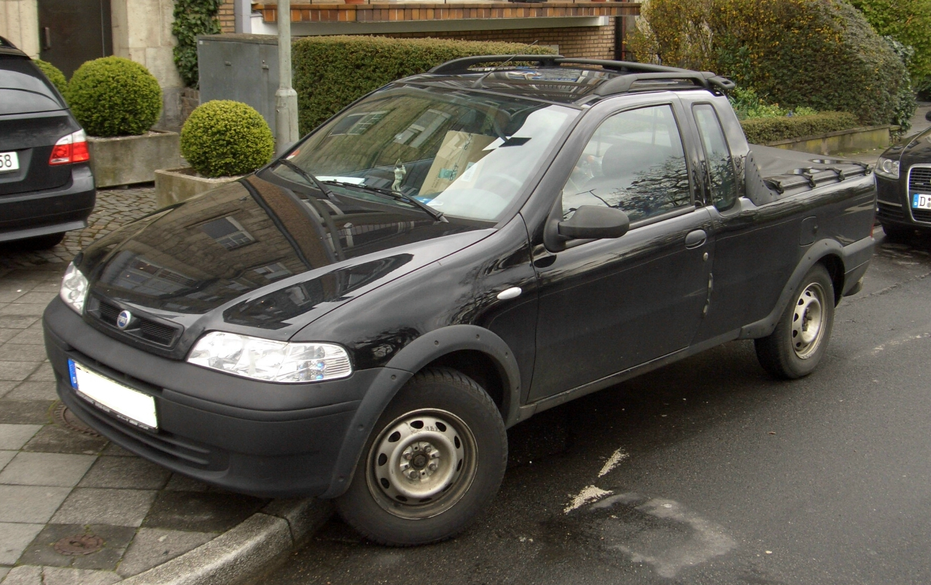 Fiat Strada JTD Pickup (Basis Fiat Palio, 2G 2001-2004), seen in Duesseldorf, Germany.